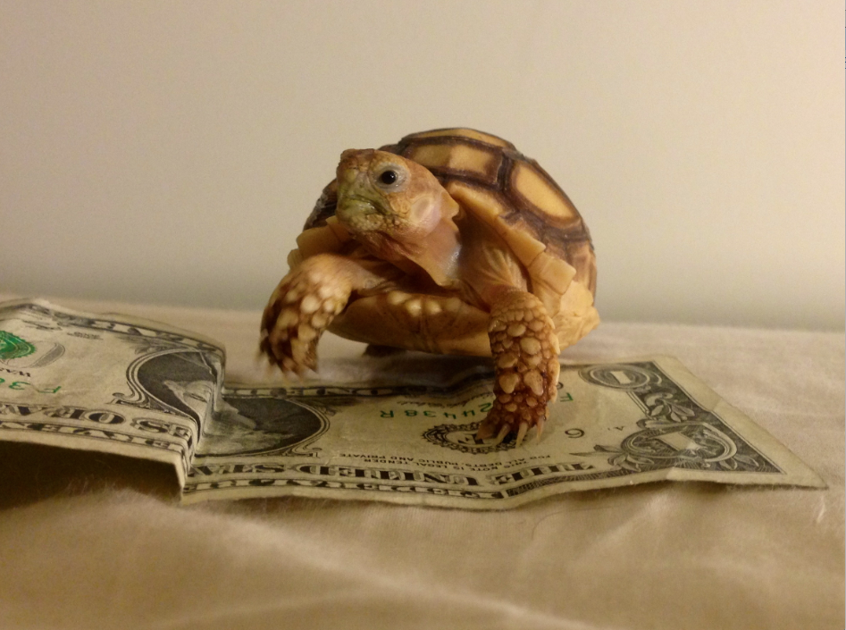 Sulcata Tortoise on Dollar